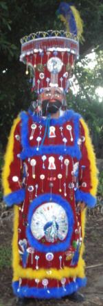 Chinelo.